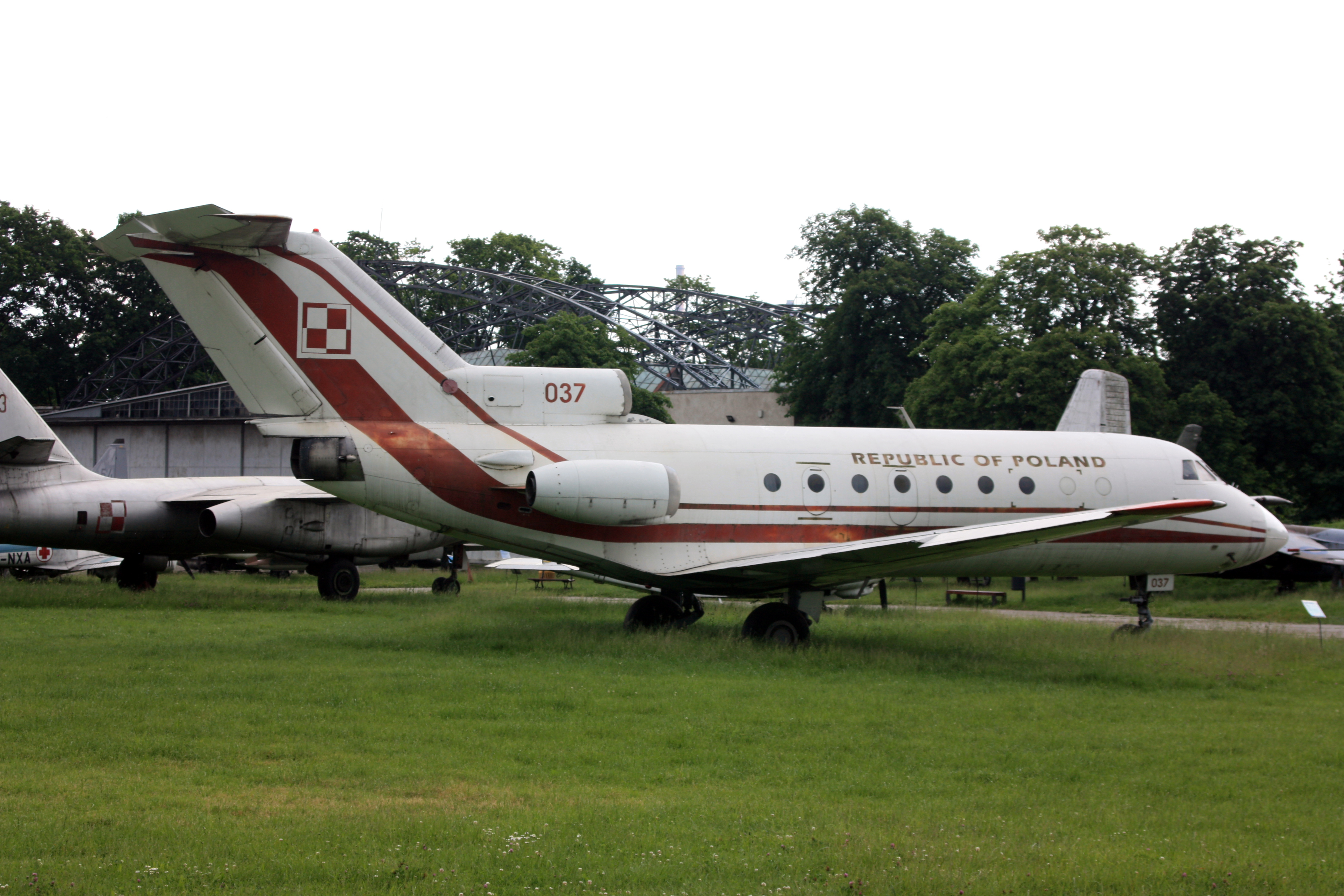 Yakovlev Yak-40 in the collections of the Polish Aviation Museum in Krakow